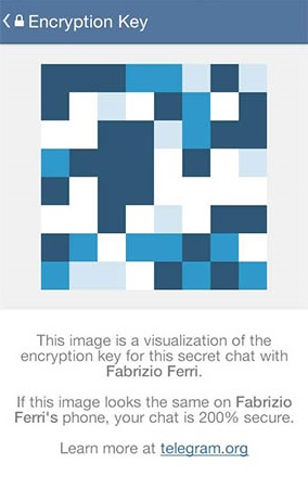 Visual representation of a encryption key form secret chat option in Telegram. This image is a square shape formed by pixels. This should match both the sender and the receiver.